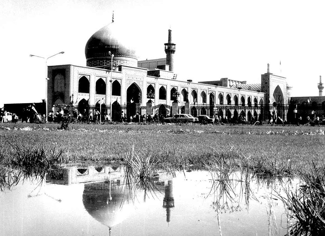 GowharShad Mosque in 1956 by Ali Asghar Nasseri